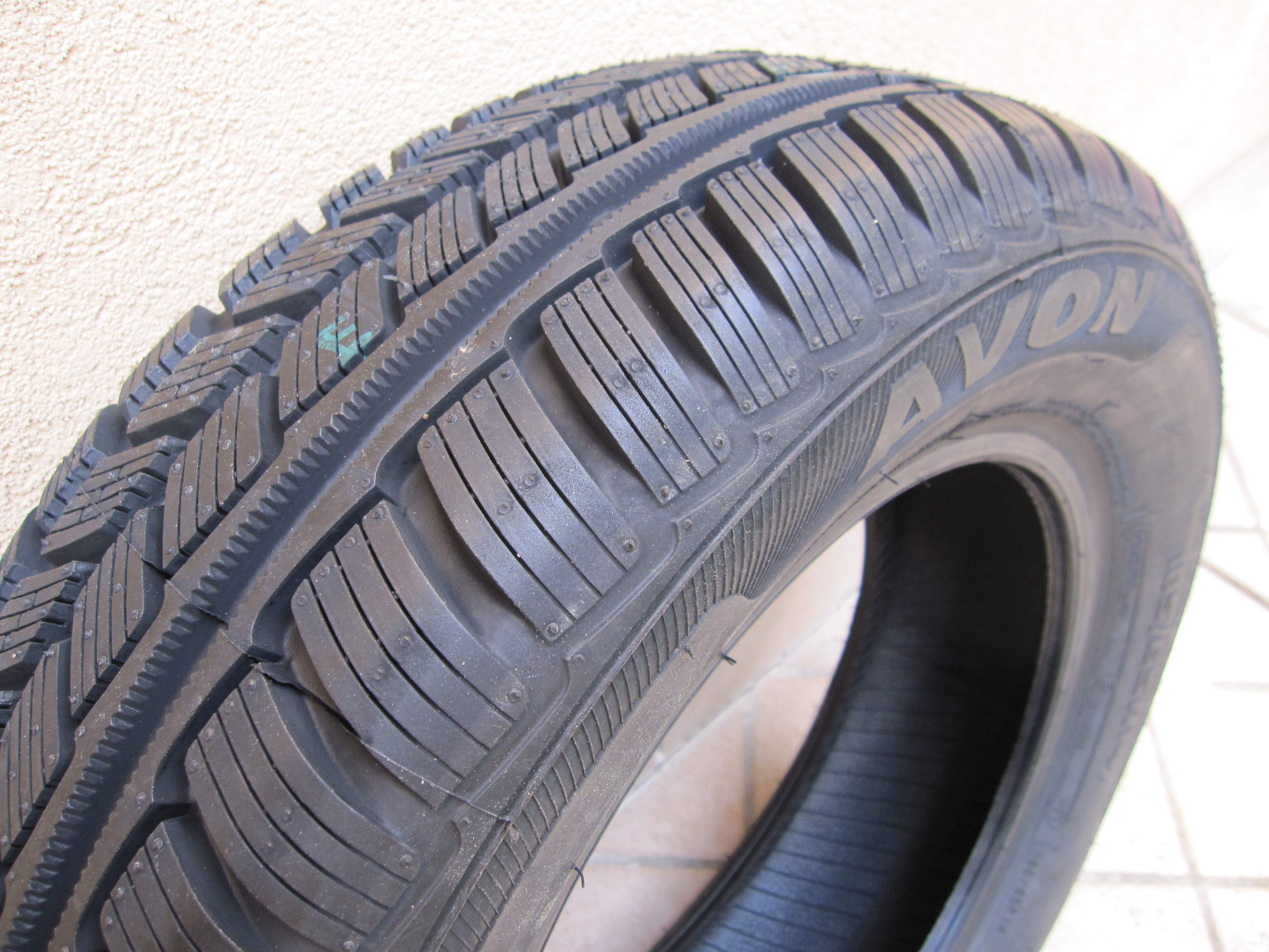 Avon Ice Touring winter tire. Mud+Snow and "snowflake" (severe snow conditions) marked. Size:185/65 R14 86T.